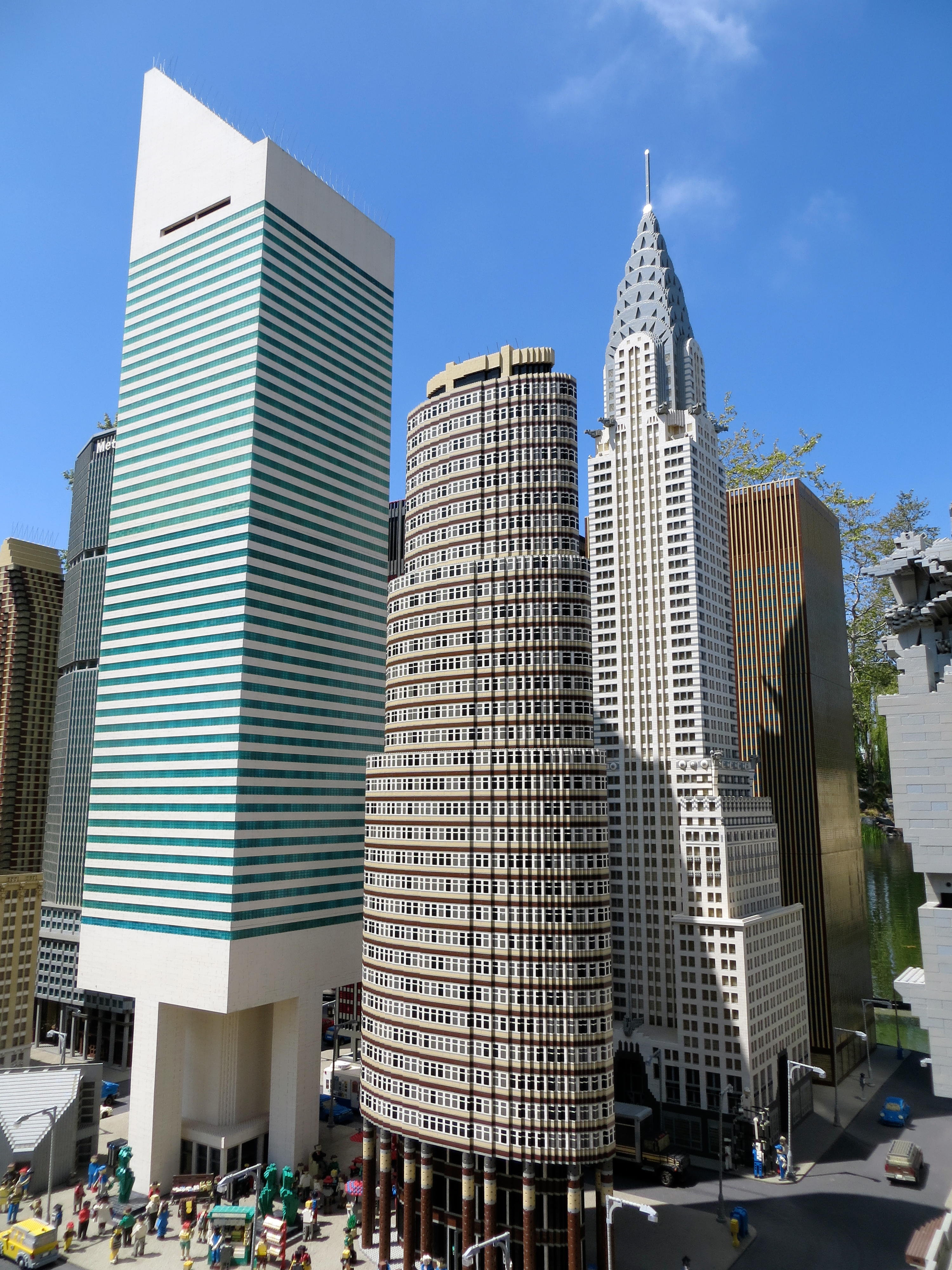 Citicorp Building, Lipstick Building, and Chrysler Building, together at last.